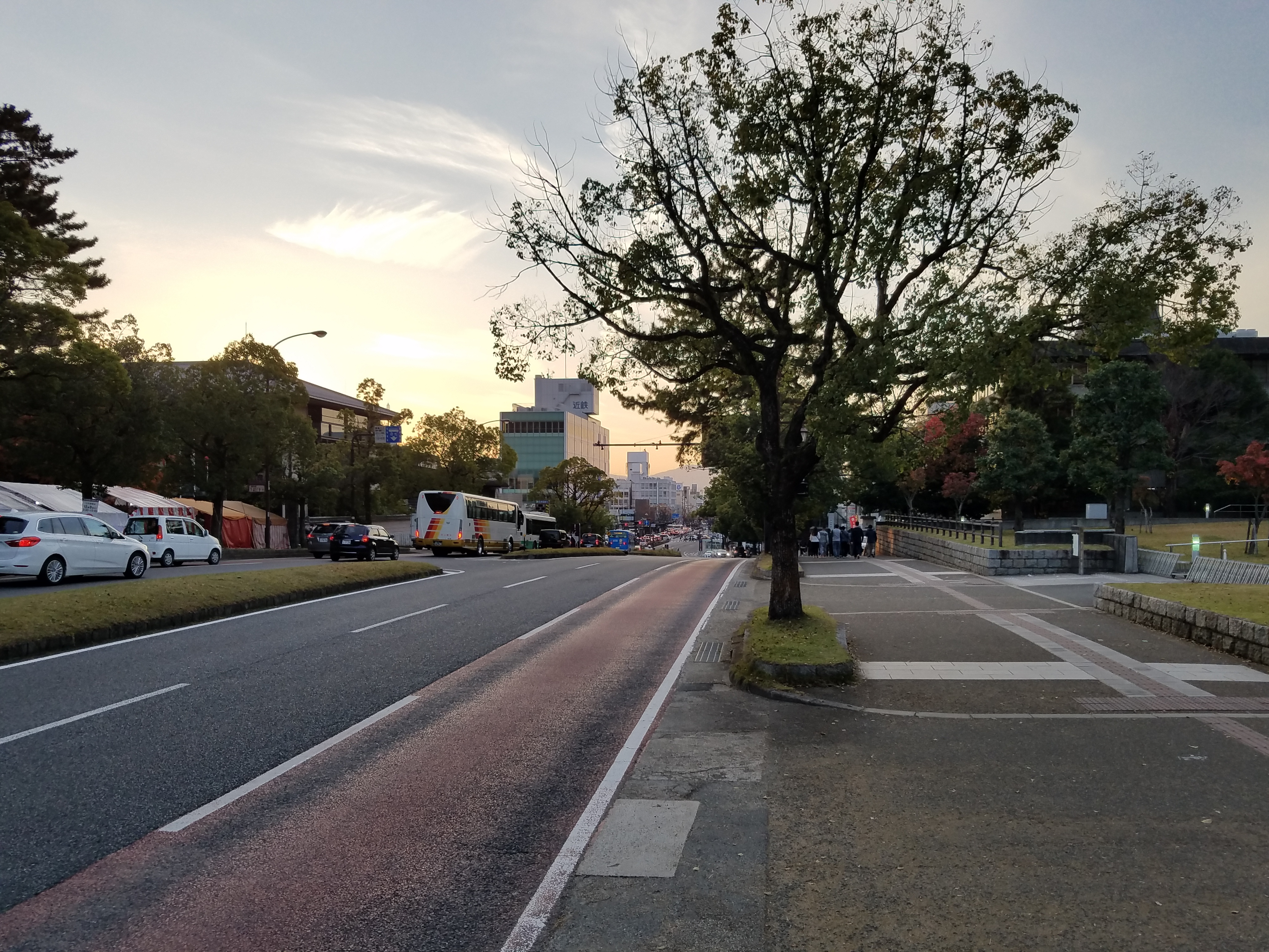 Fault scarp in front of Kintetsu-Nara terminal